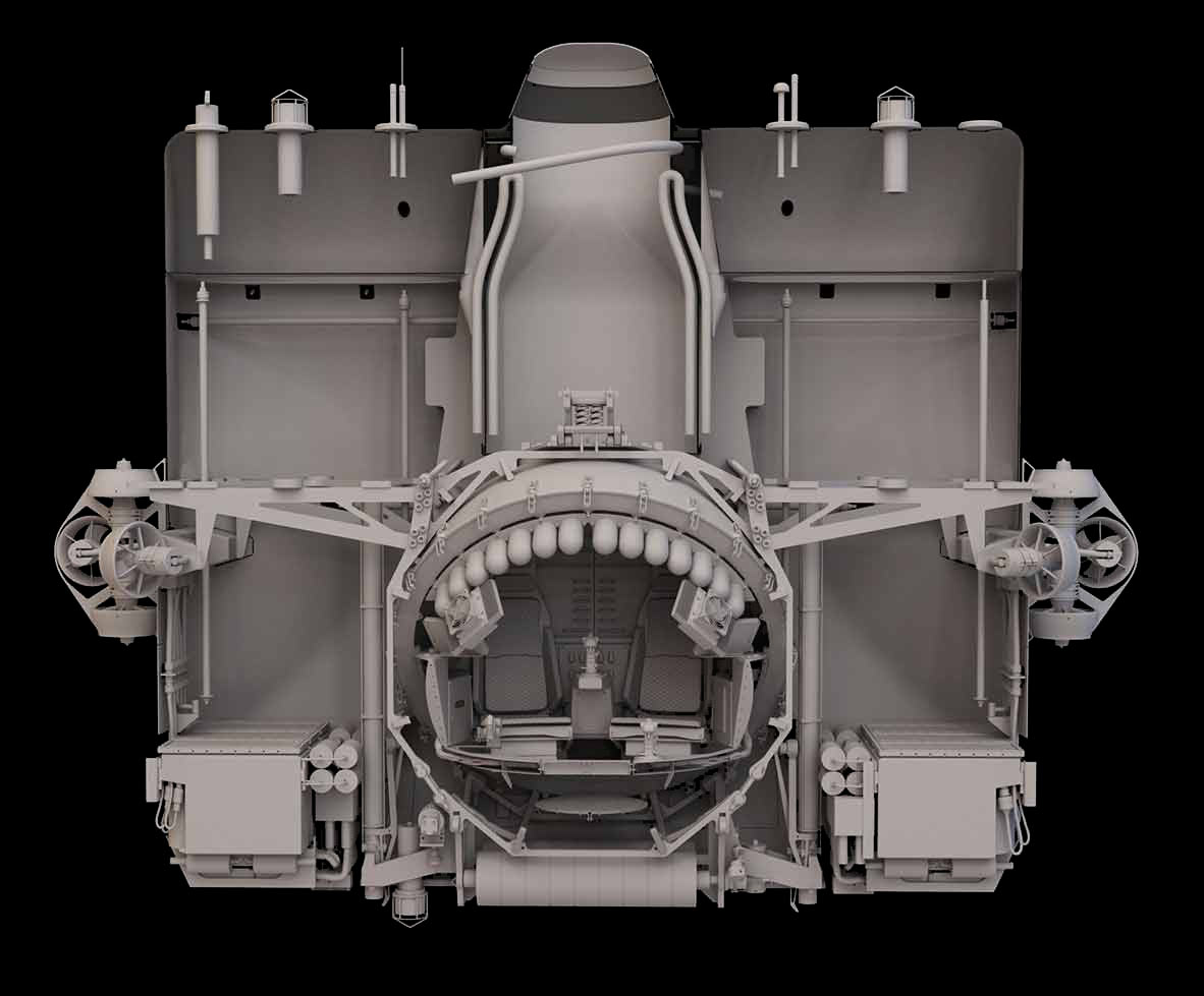 rendering of a cutaway of the submersible Limiting Factor